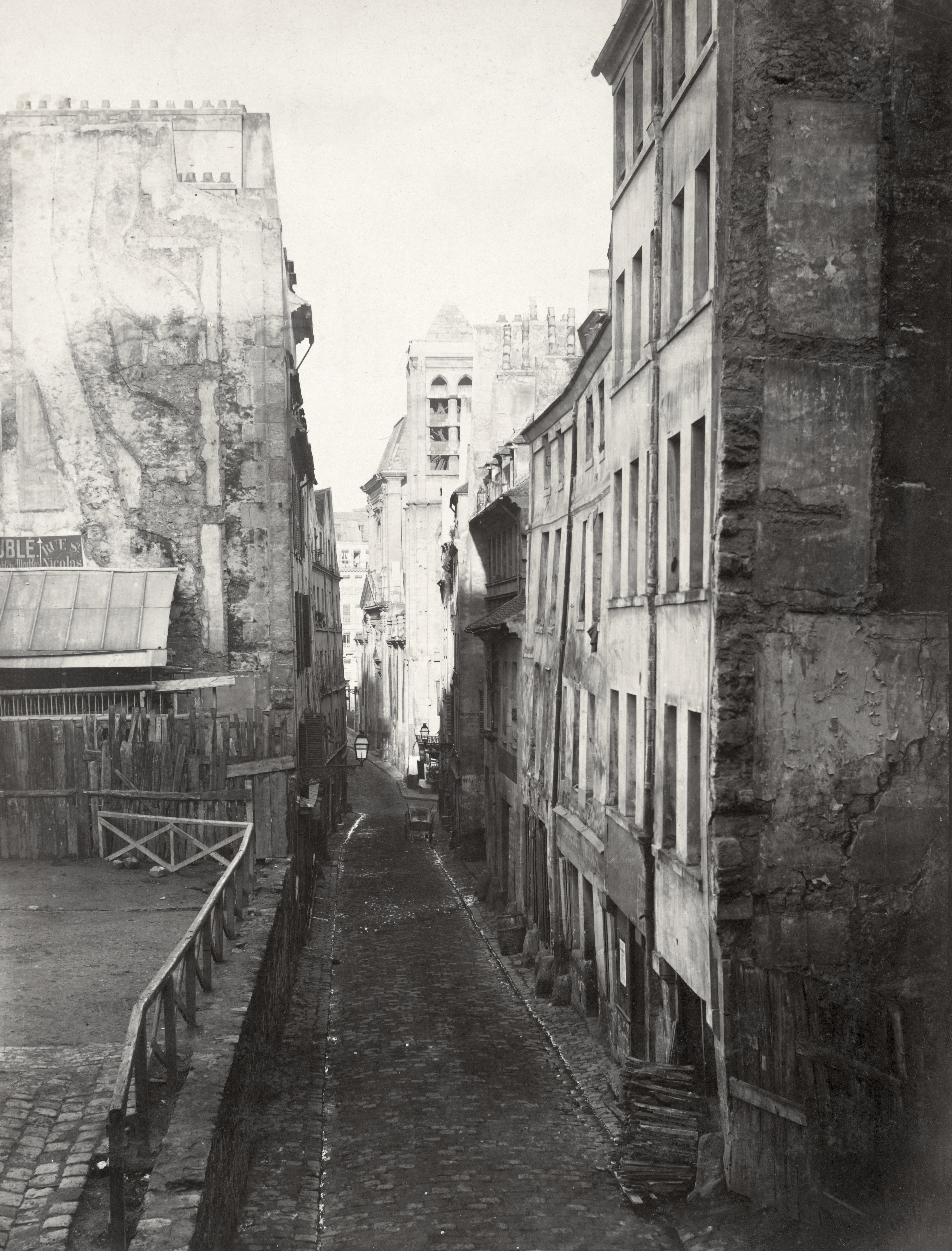 Elevated view of narrow cobbled street with fenced off cleared area on left.